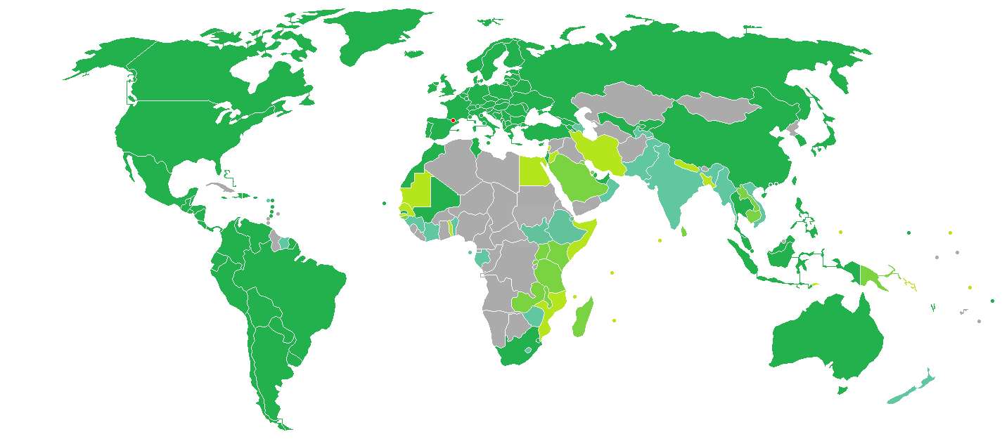 Visa requirements for Andorran citizens Andorra Visa free access Visa on arrival eVisa Visa available both on arrival or online Visa required